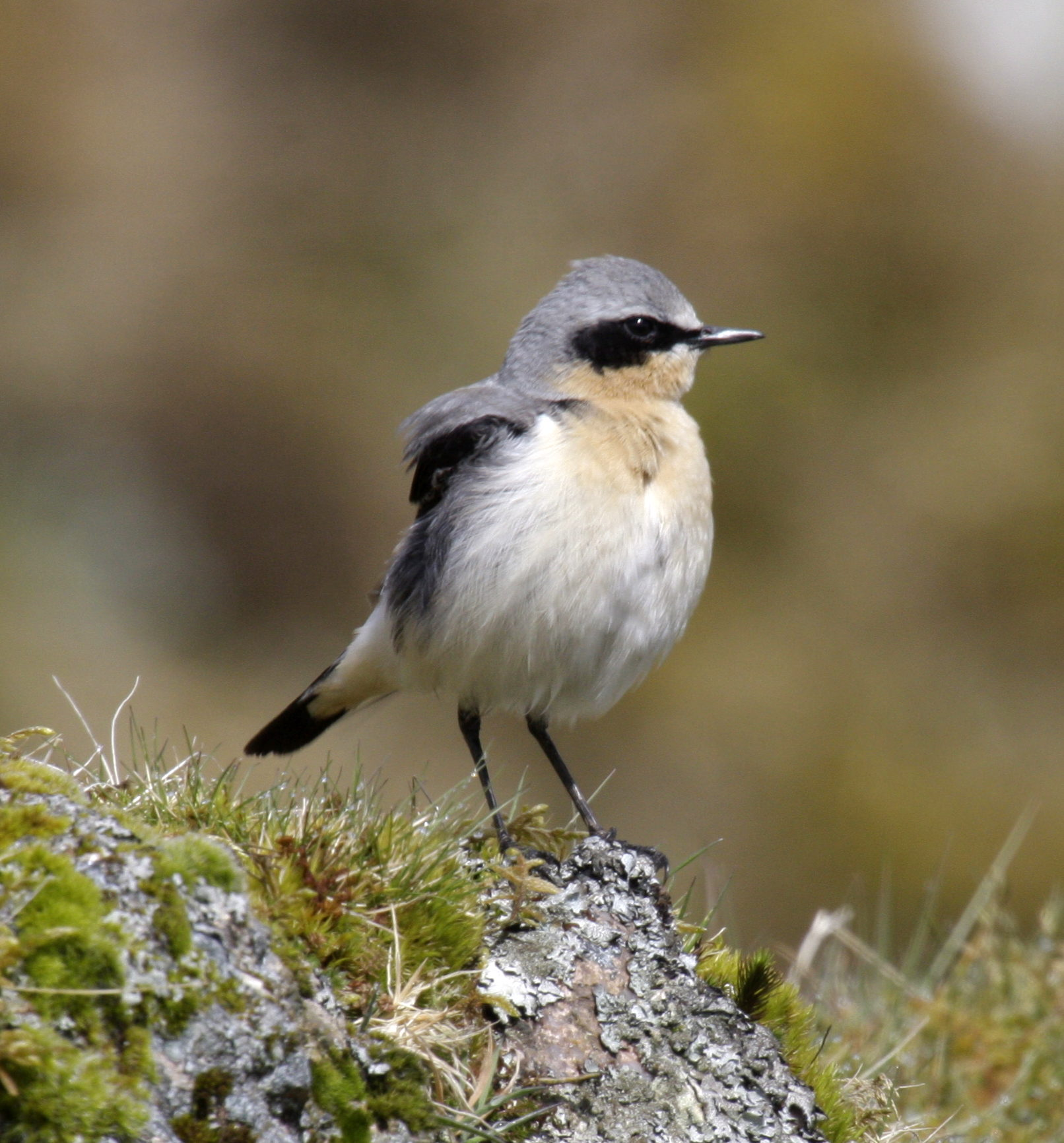 Northern Wheatear (Oenanthe oenanthe) Male Whiteworks, Dartmoor, Devon, England